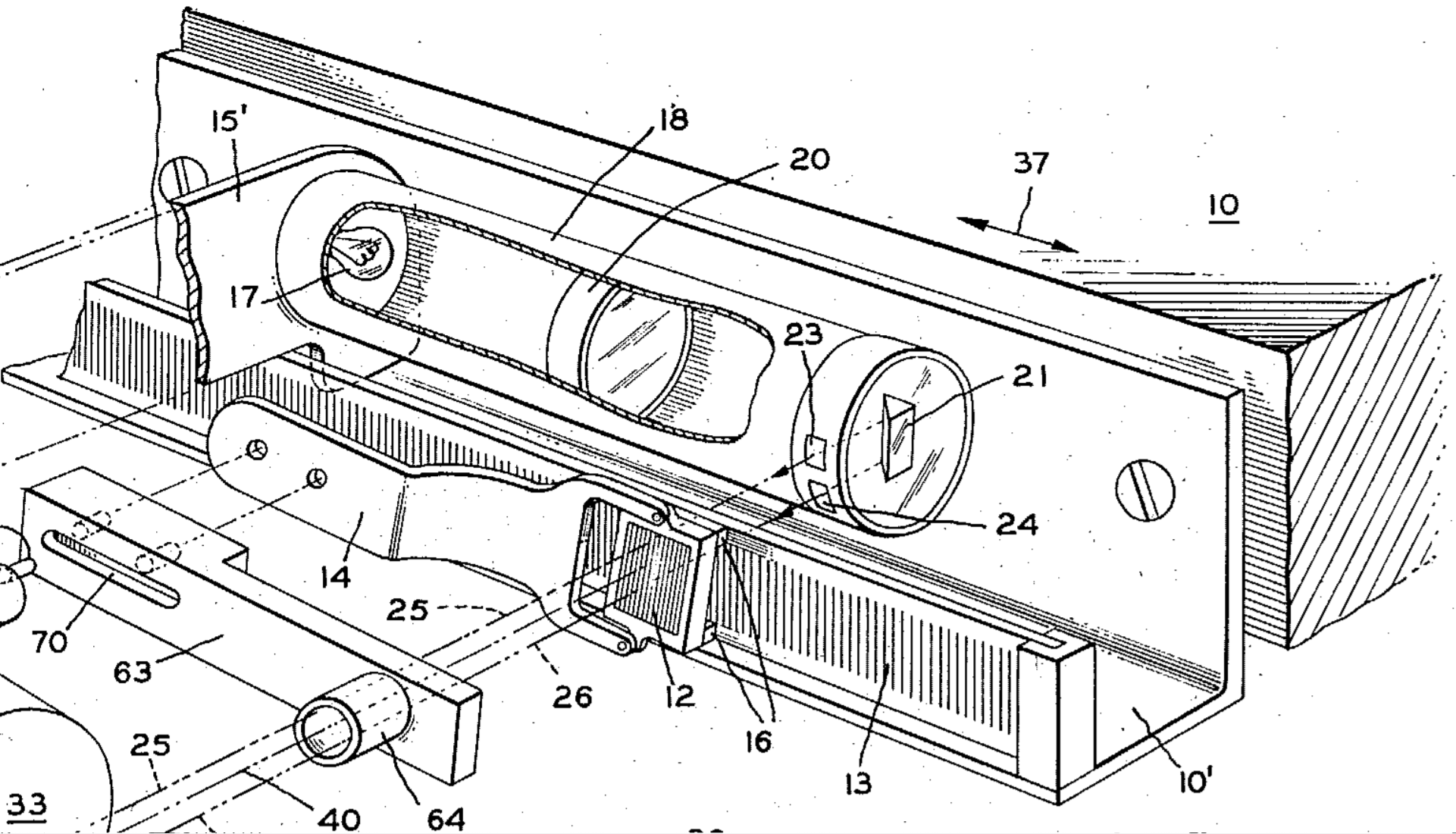 The Ferranti measurement system - using diffraction gratings for 5 micrometer precision over up to 1.5 meter span. US patent 2886717, by D. T. N. Williamson, filed 14-03-1953